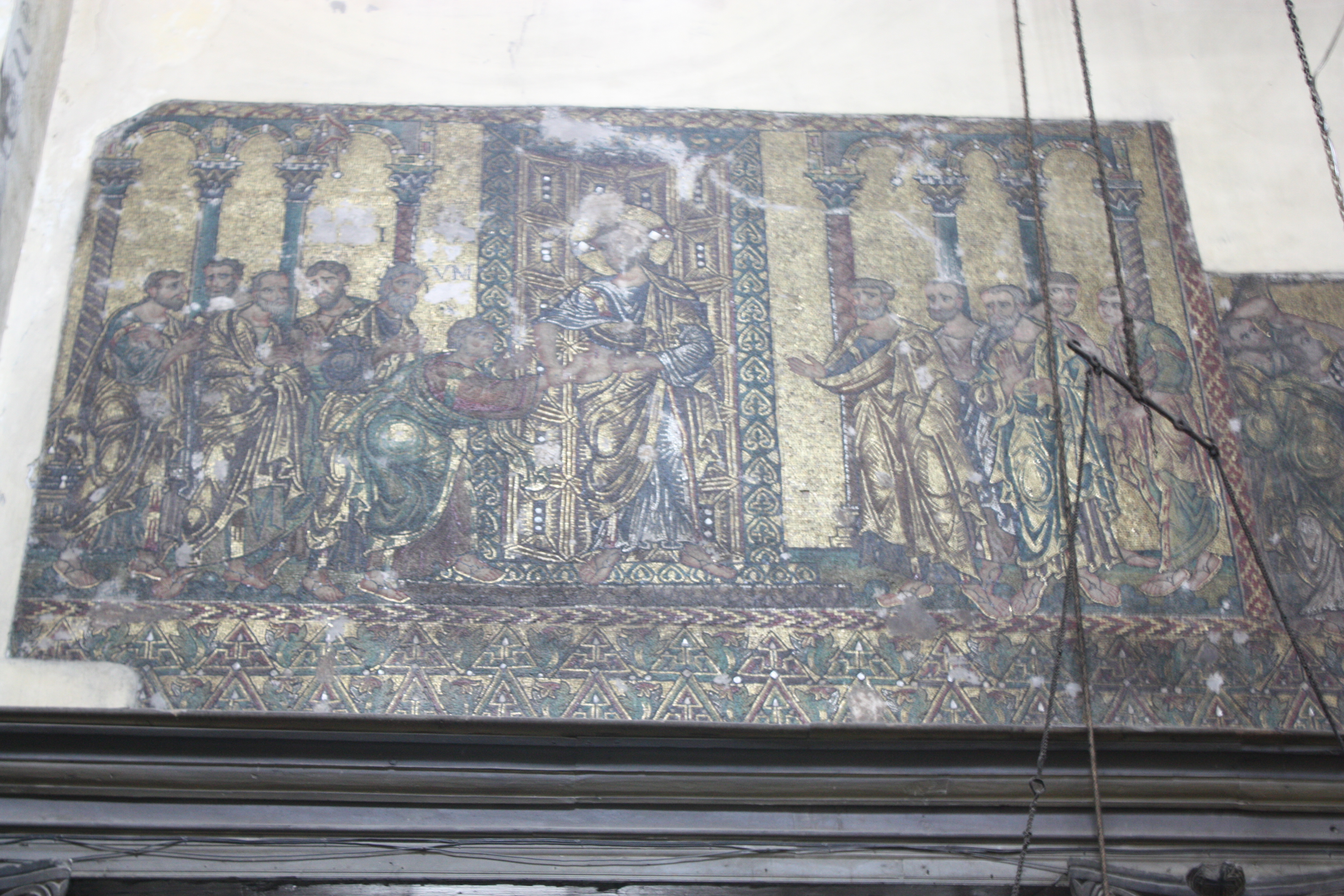 Wall mosaic in the Church of the Nativity.